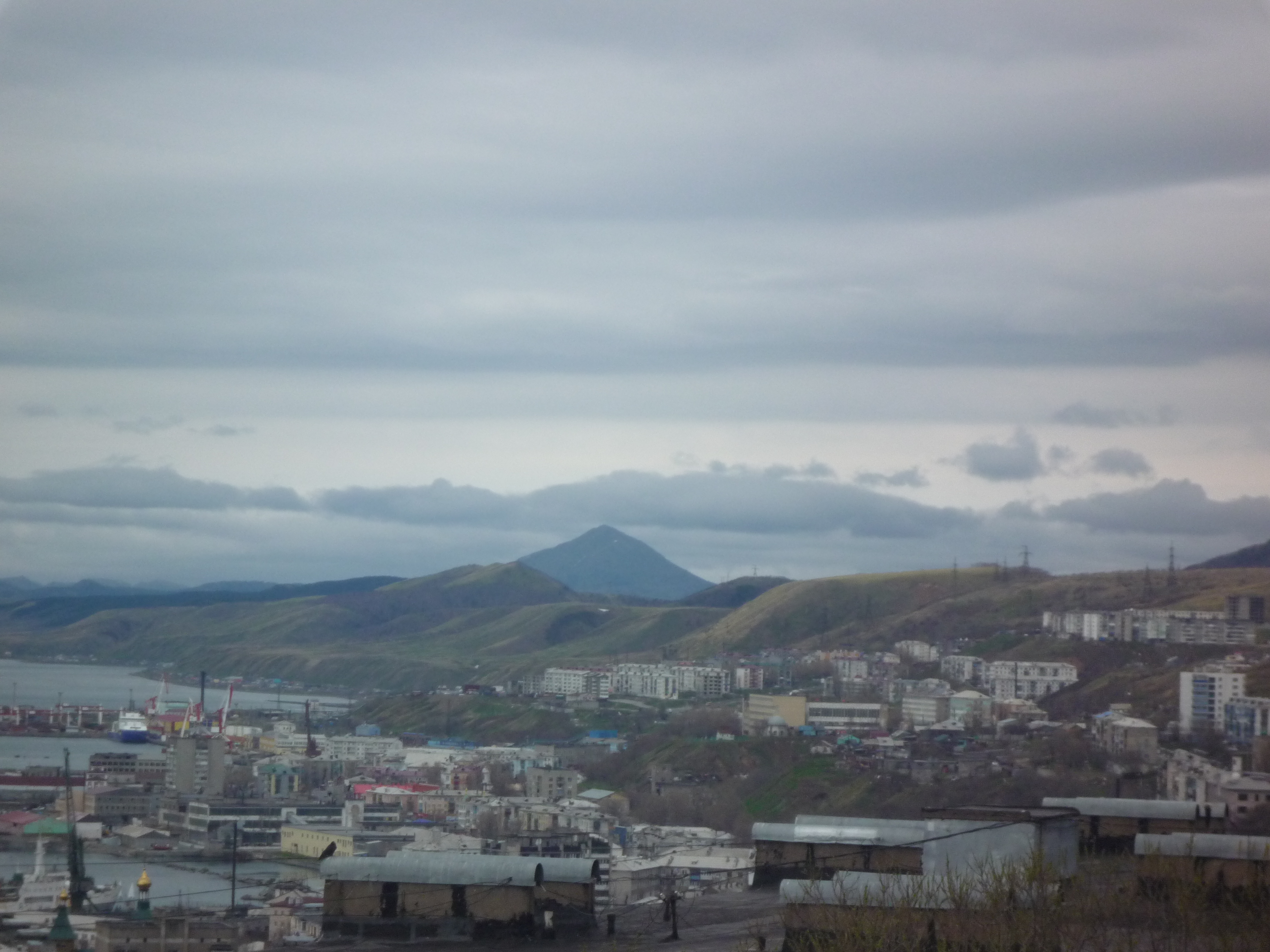 Гора Спамберг